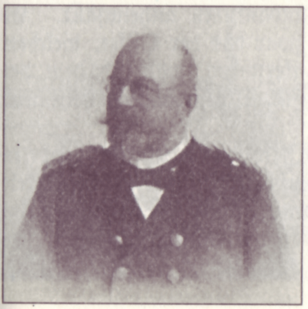 Hermann Gutschow (1843-1903), Generalstabsarzt (en: Staff-Surgeon General) and Admiral and admiral of the Imperial German Navy.